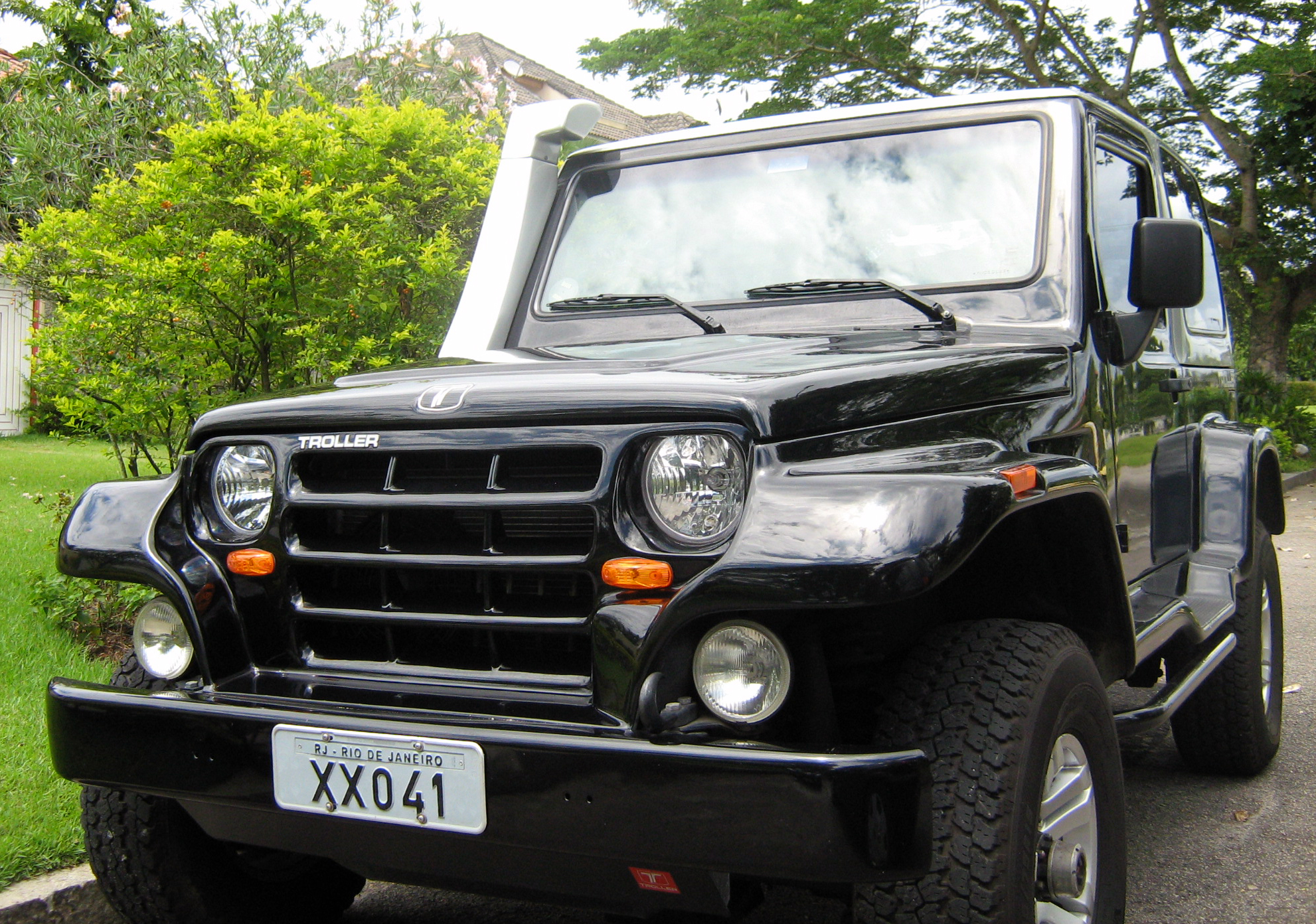 A Troller T4 Hardtop seen on a suburban street of Rio de Janeiro, Brazil.